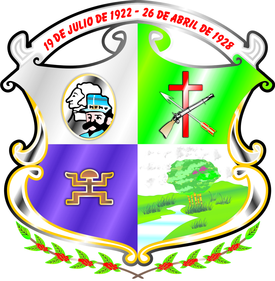 Escudo del municipio de Ulloa